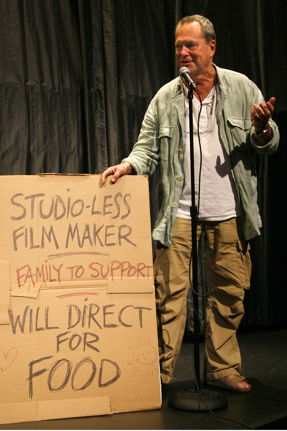 Terry Gilliam at IFC Center: "Studio-less film maker / Family to support / Will direct for food"